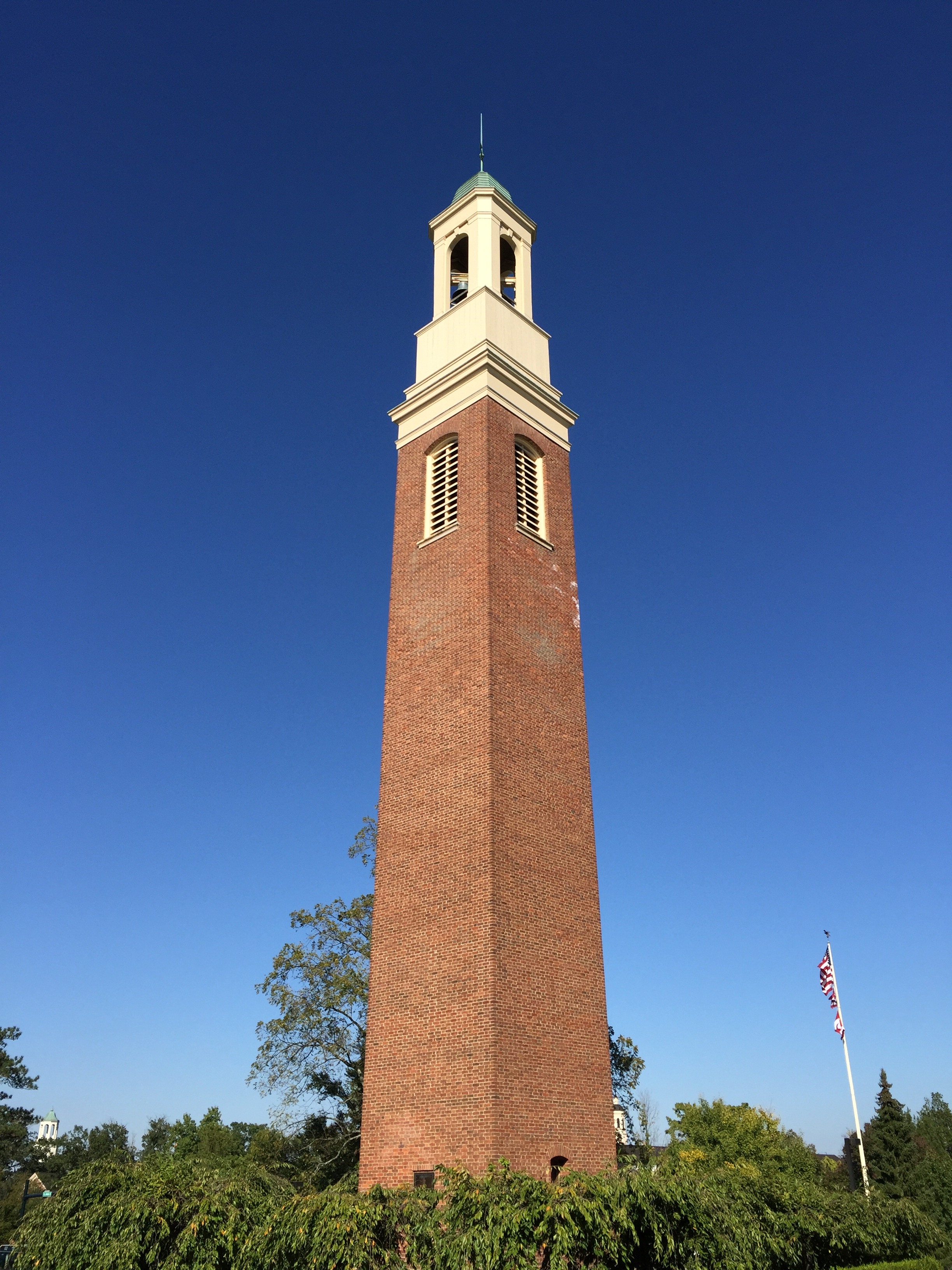 Miami University Bell Tower.